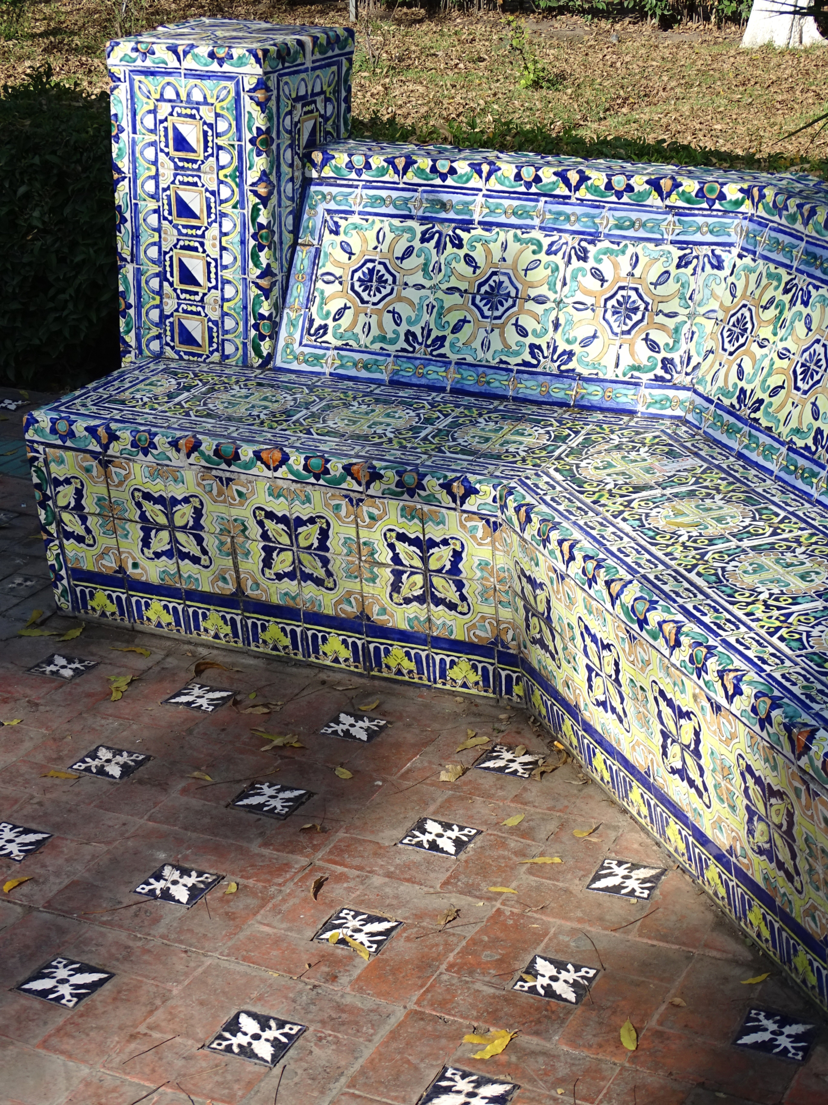 Tiled Seating by Park Fountain - Historic Center - Saltillo - Coahuila - Mexico